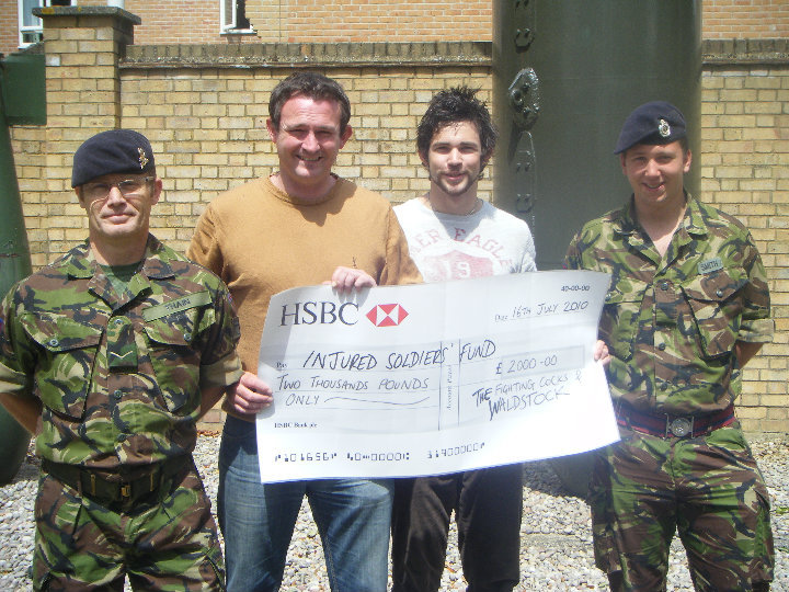 Making donation to members of Carver Barracks, at Waldstock Festival in 2010, a pub event at the Fighting Cocks in Wedens Ambro, Essex.